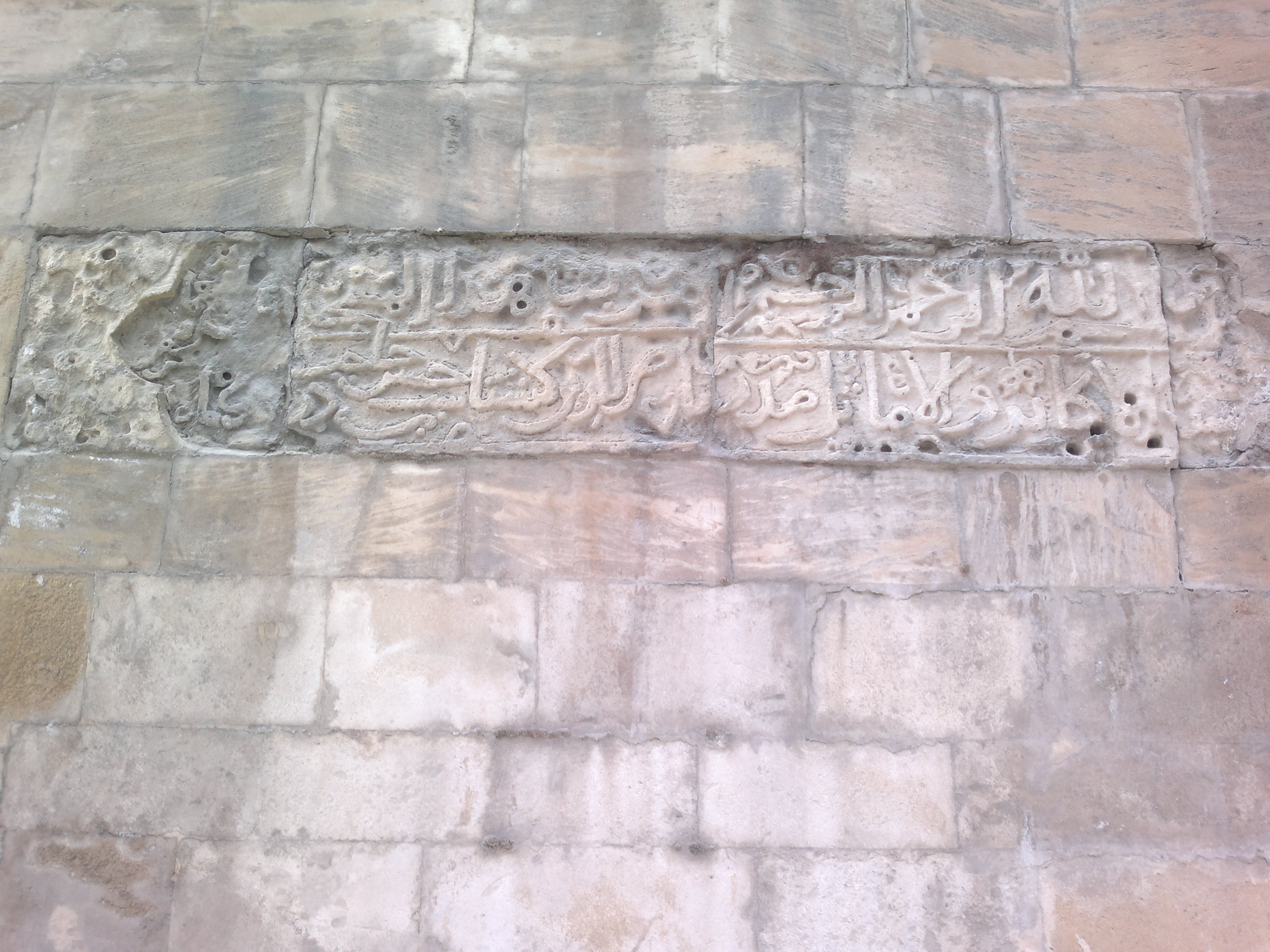 Molla Ahmad Mosque. Built in the 14th century.